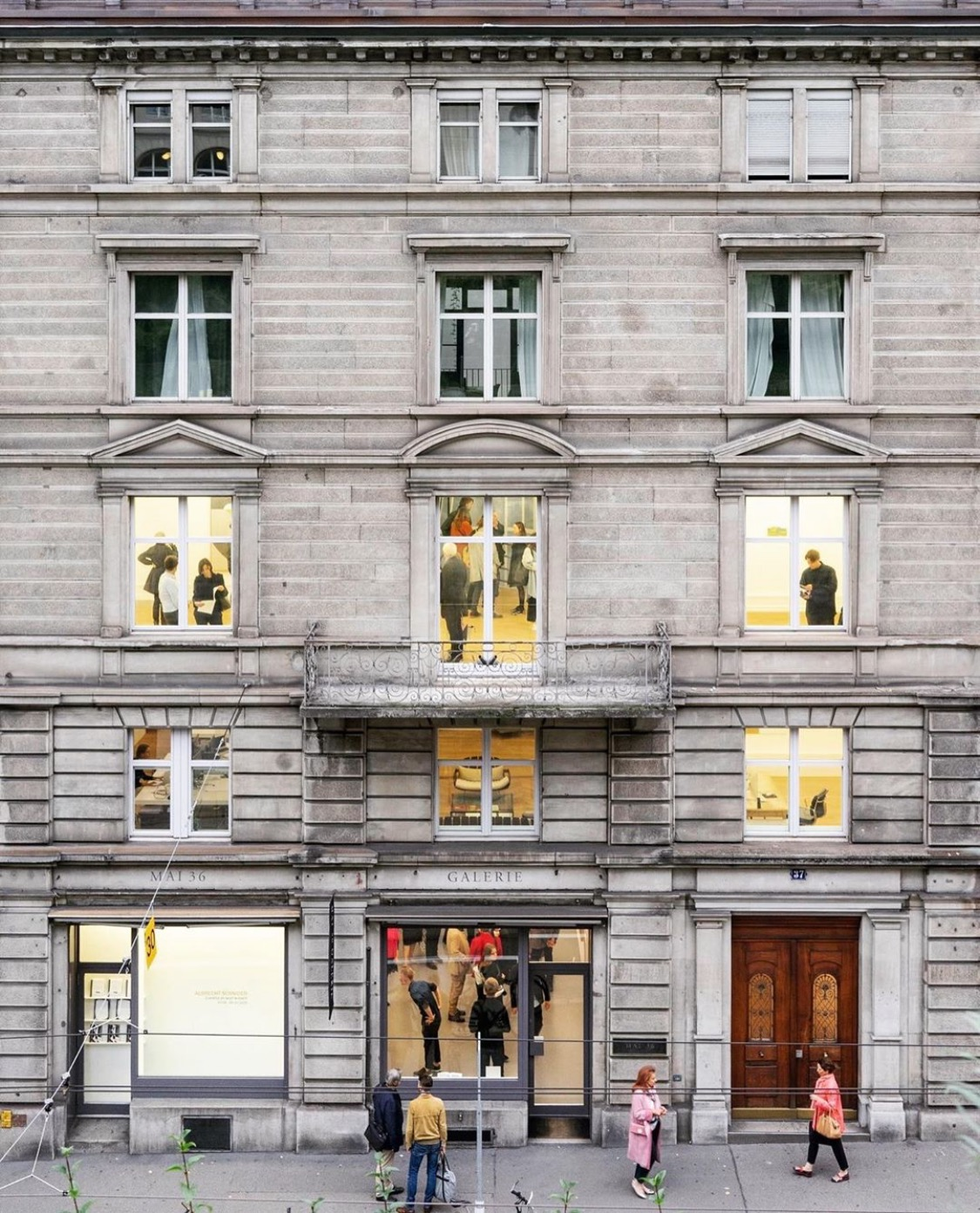 Gallery Space on Rämistrasse, Zurich